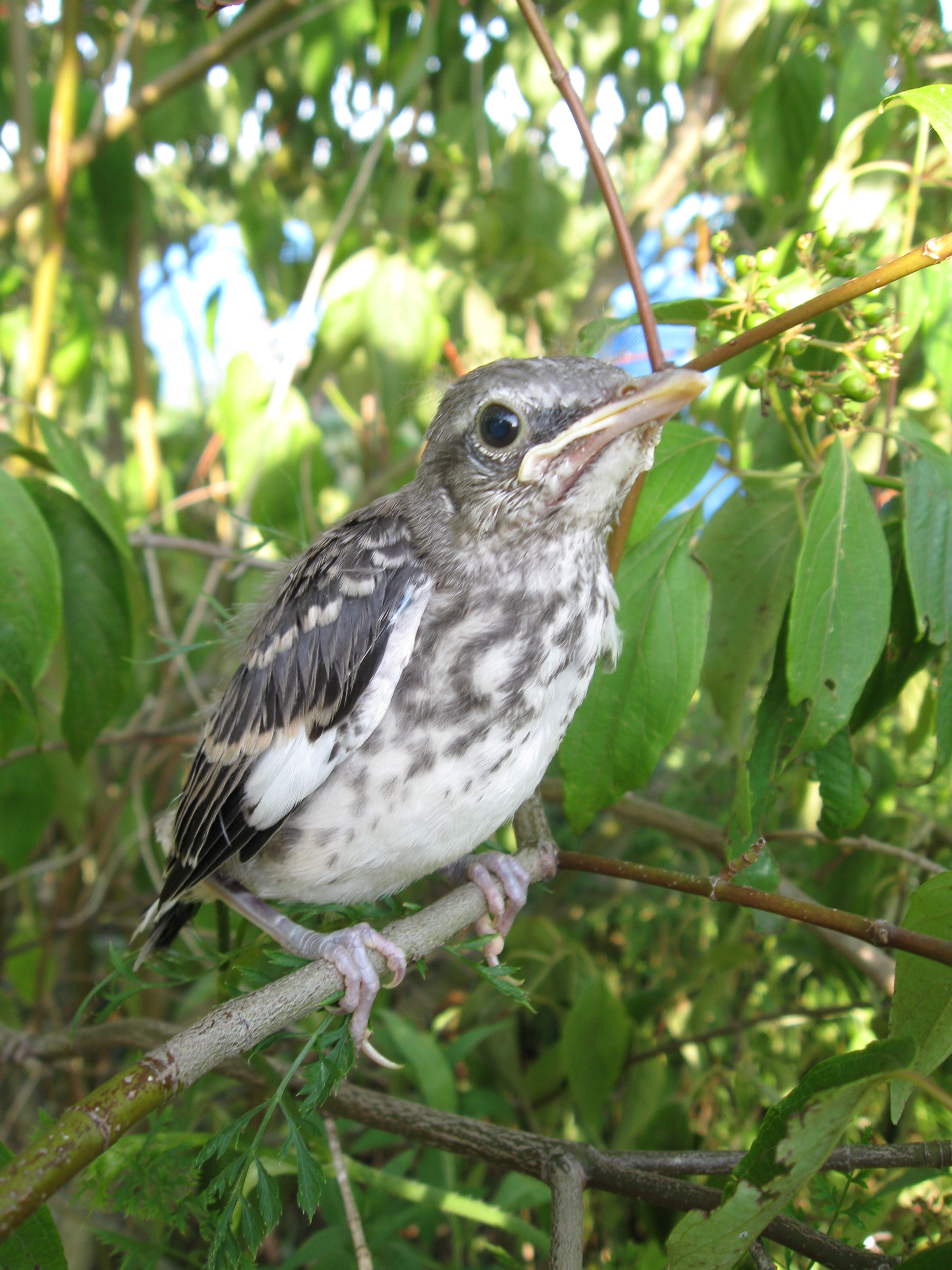 Juvenile Mimus polyglottos residing in Pennsylvania